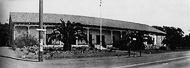 Mission San Jose (circa 1910), photograph by W.A.Haines. img URL